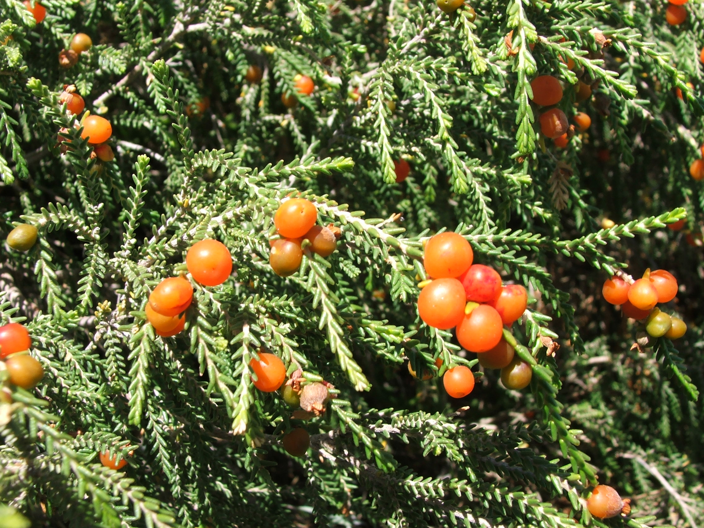 Passerina ericoides. Christmas berry bush. Cape Town Strandveld vegetation.